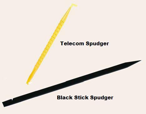 Spudgers